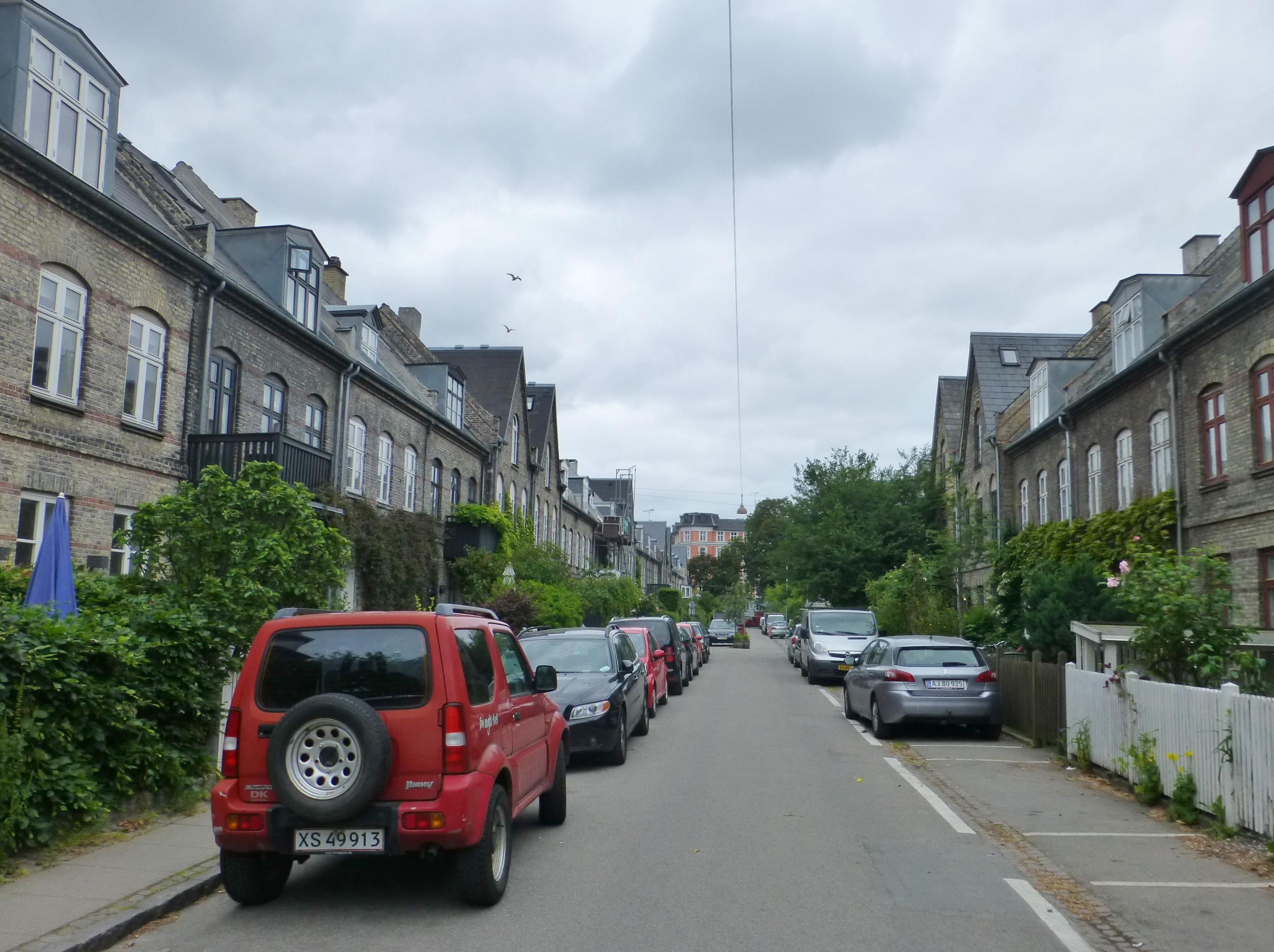 The street Abildgaardsgade in the area Kartoffelrækkerne in Østerbro in Copenhagen.